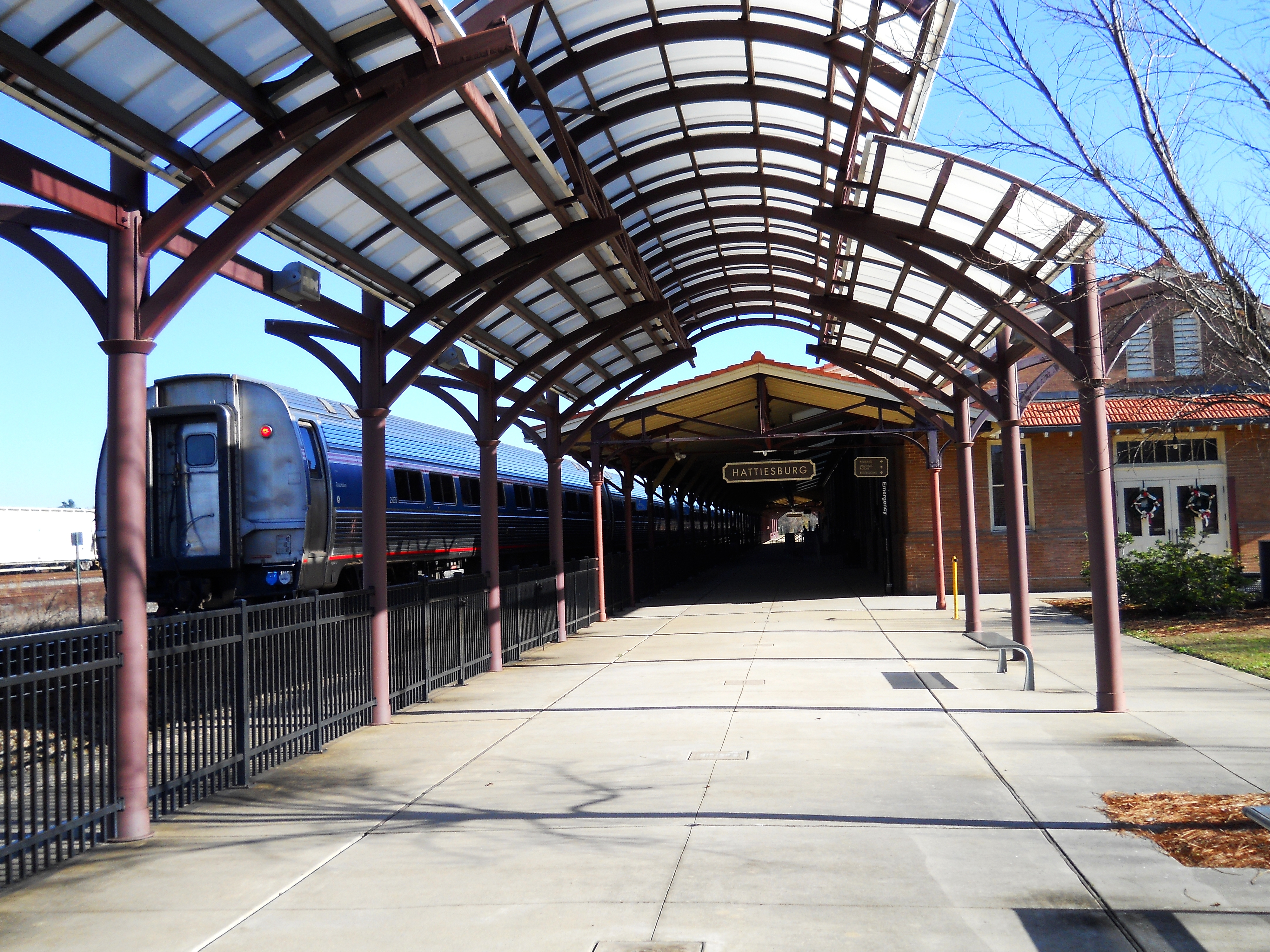 Amtrak Crescent at Hattiesburg Train Depot, Forrest County, Mississippi, USA.